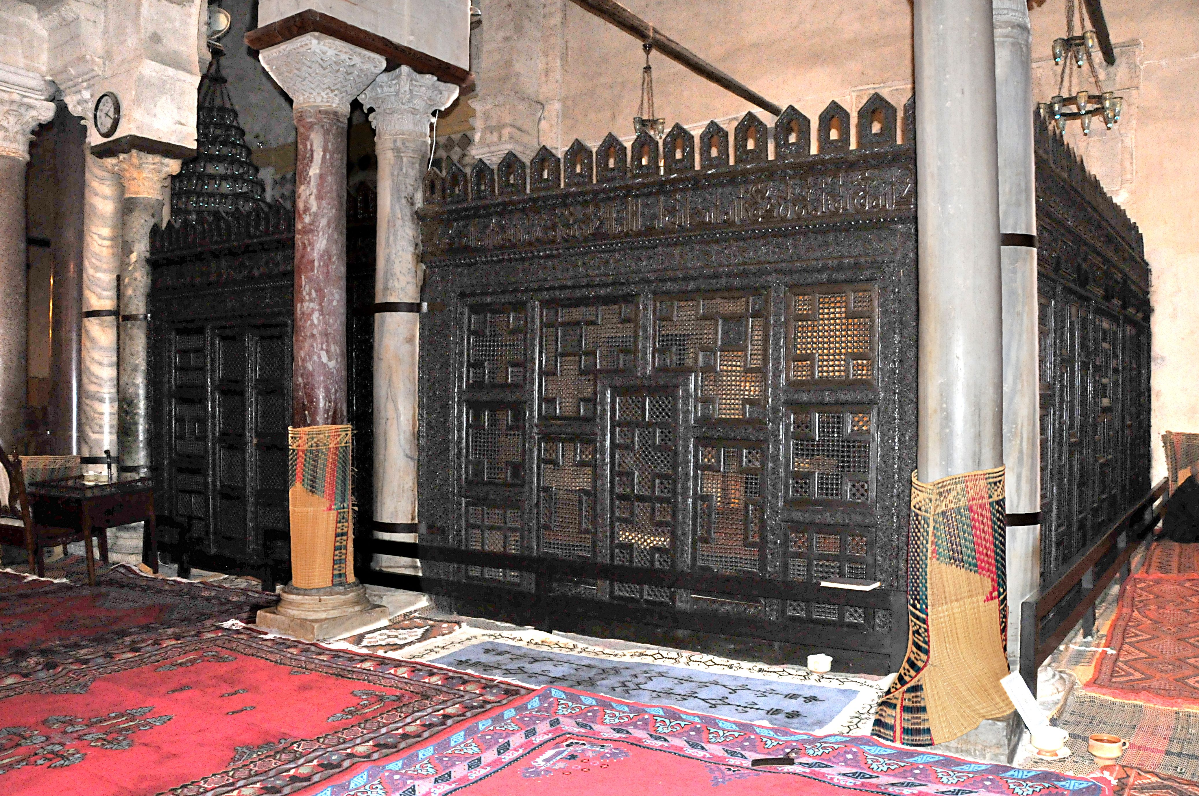 View of the Maqsura — in the Prayer hall of the Great Mosque of Kairouan, Tunisia.